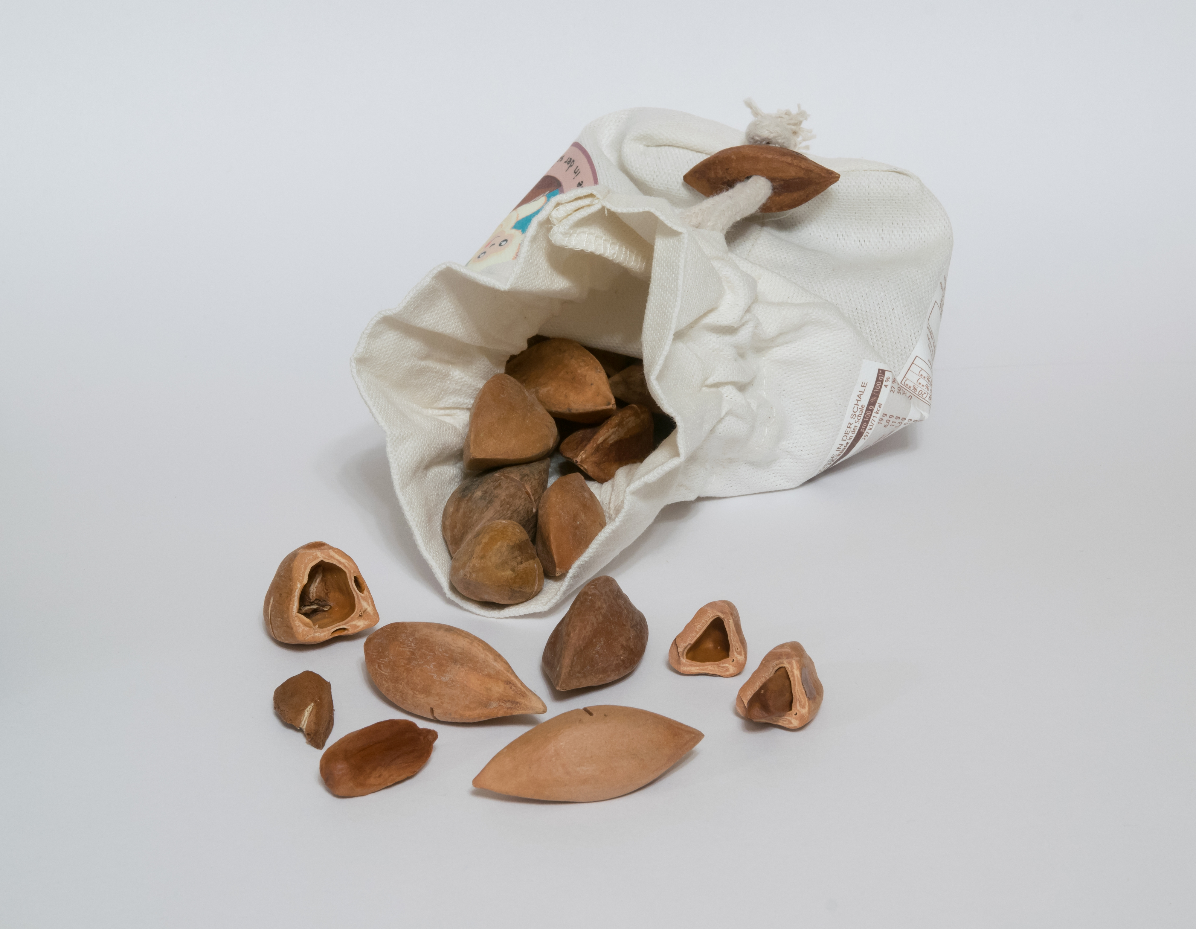 A bag of Pili nuts (Canarium ovatum)